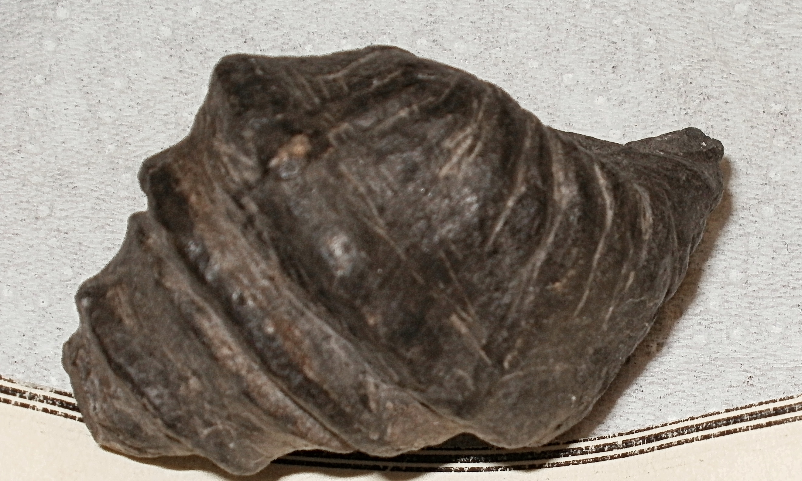 fossil Ampullaria bicarinata from eastern Serbia